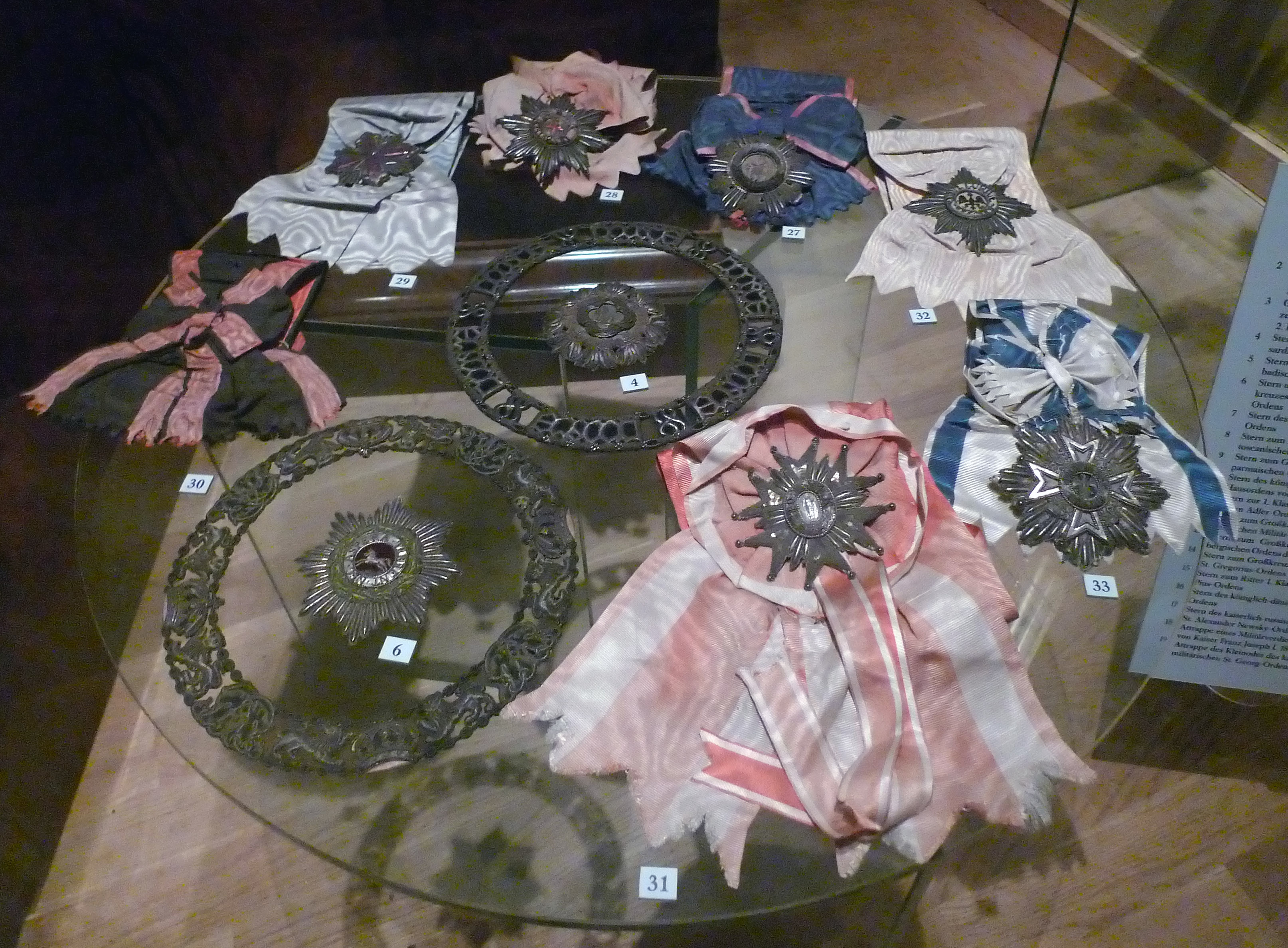 Some of the decorations of Count Johann Joseph Wenzel Radetzky von Radetz, on display at the Heeresgeschichtliches Museum Wien.